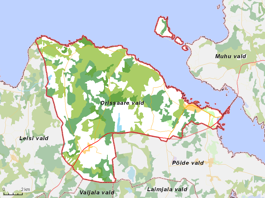 Map of municipality in Estonia